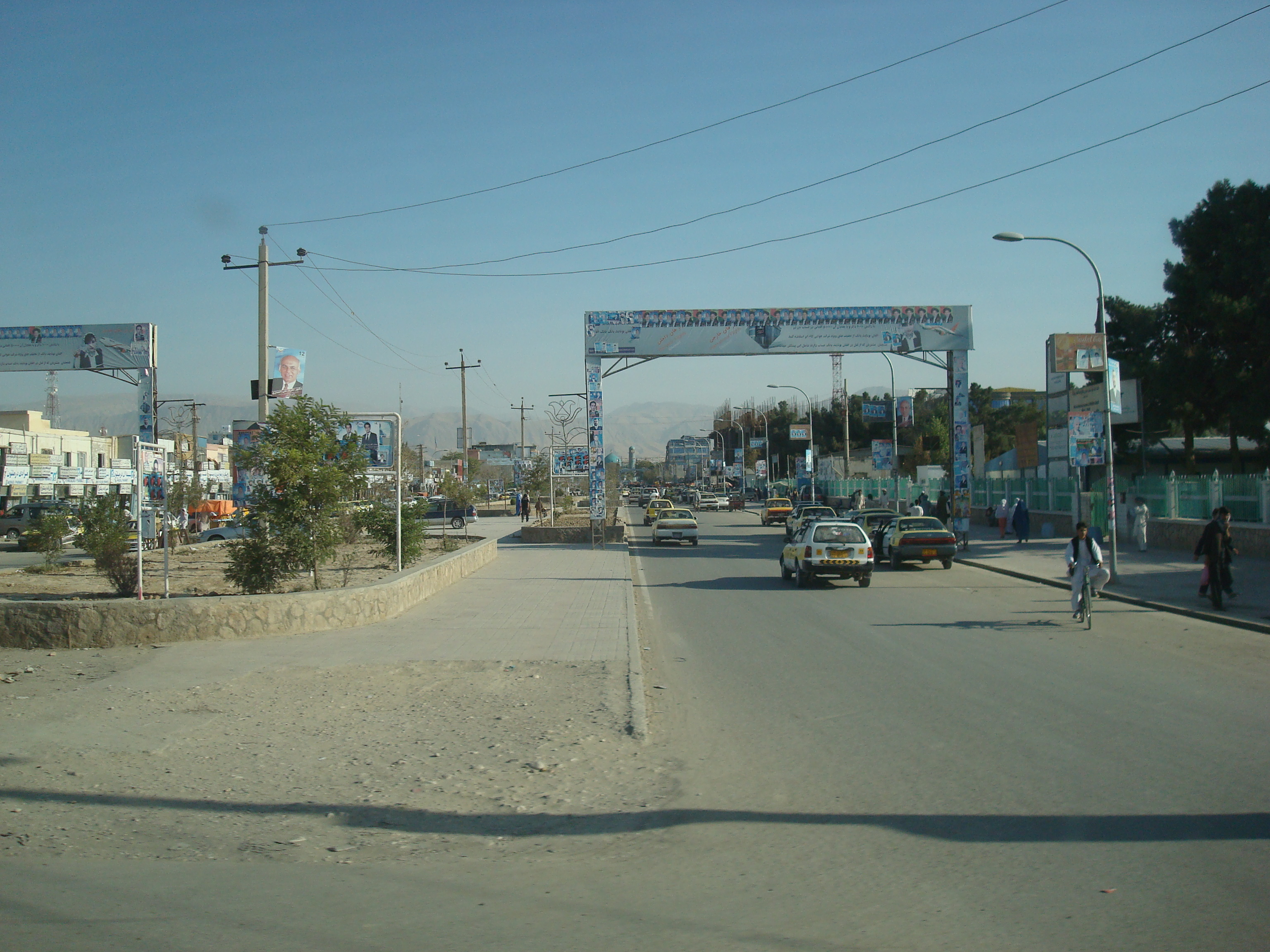 Main Street in Mazar-i-Sharif, Afghanistan